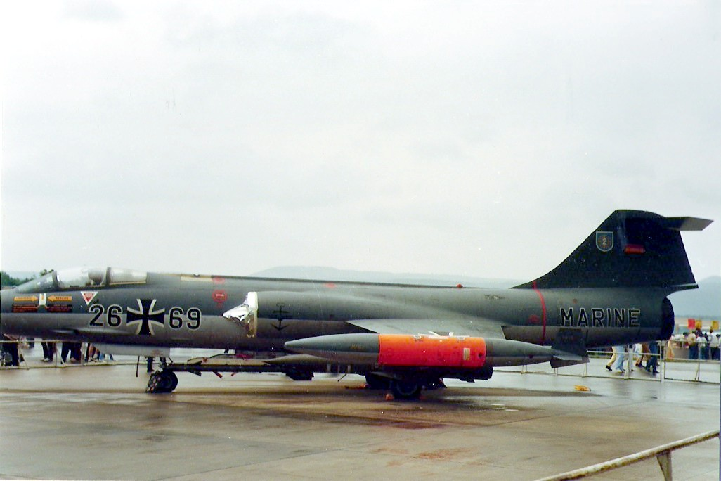 A Lockheed F-104G Starfighter (s/n 26+69) of the Marinefliegergeschwader 2 (MFG 2) (2nd Naval Fighter Wing) of the German Navy at Ramstein Air Base, Rhineland-Palatinate, Germany, on 24 June 1984. It carries AIM-9B Sidewinder air-to-air missiles under the fuselage, and "Kormoran" anti-ship missiles under the wings. The MFG 2 was based at Eggebek, Schleswig-Holstein, Germany, and flew the F-104G from 1964 to 1986. It was disbanded in 2005. 26+69 (c/n 7415) was built by MBB at Manching, Bavaria, Germany, and had its first flight on 7 February 1972. It was delivered to MFG 1 on 20 March 1972. It was relocated to MFG 2 on 10 September 1981, and again to the "Wehrtechnische Dienststelle 61 (WTD 61)" (Luftwaffe flight test center) on 21 January 1987. It was retired on 21 May 1987 after having flown 2.258 flight hours. It was sold to the Hellenic Air Force on 15 September 1988 (as "FG-415", 116th Squadron, Araxos AB). It was finally withdrawn from service in March 1993 but was used as an instructional airframe at Tatoi technical school from November 1993 until 1994. Since April 1996 it is preserved at the Hellenic AF Museum at Tatoi AB.